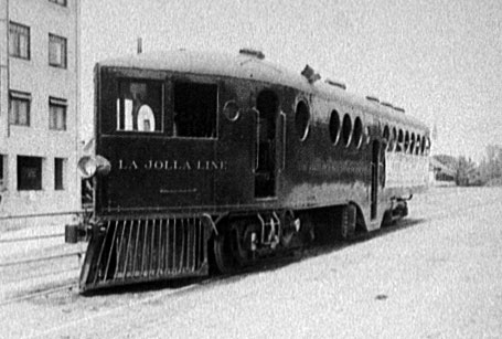 McKeen car of the Los Angeles & San Diego Beach Railway "La Jolla Line", circa 1910. These red-painted cars were nicknamed "Red Devils" or "Submarines" by locals.